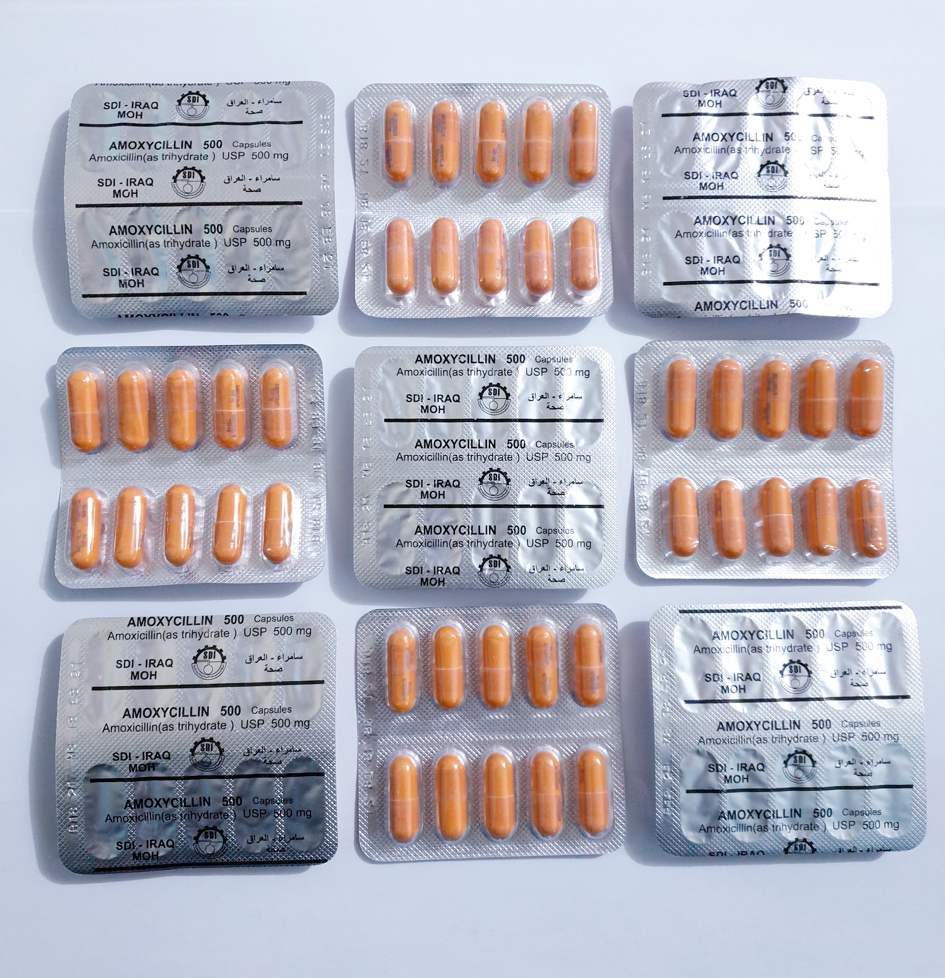 Amoxicillin SDI production